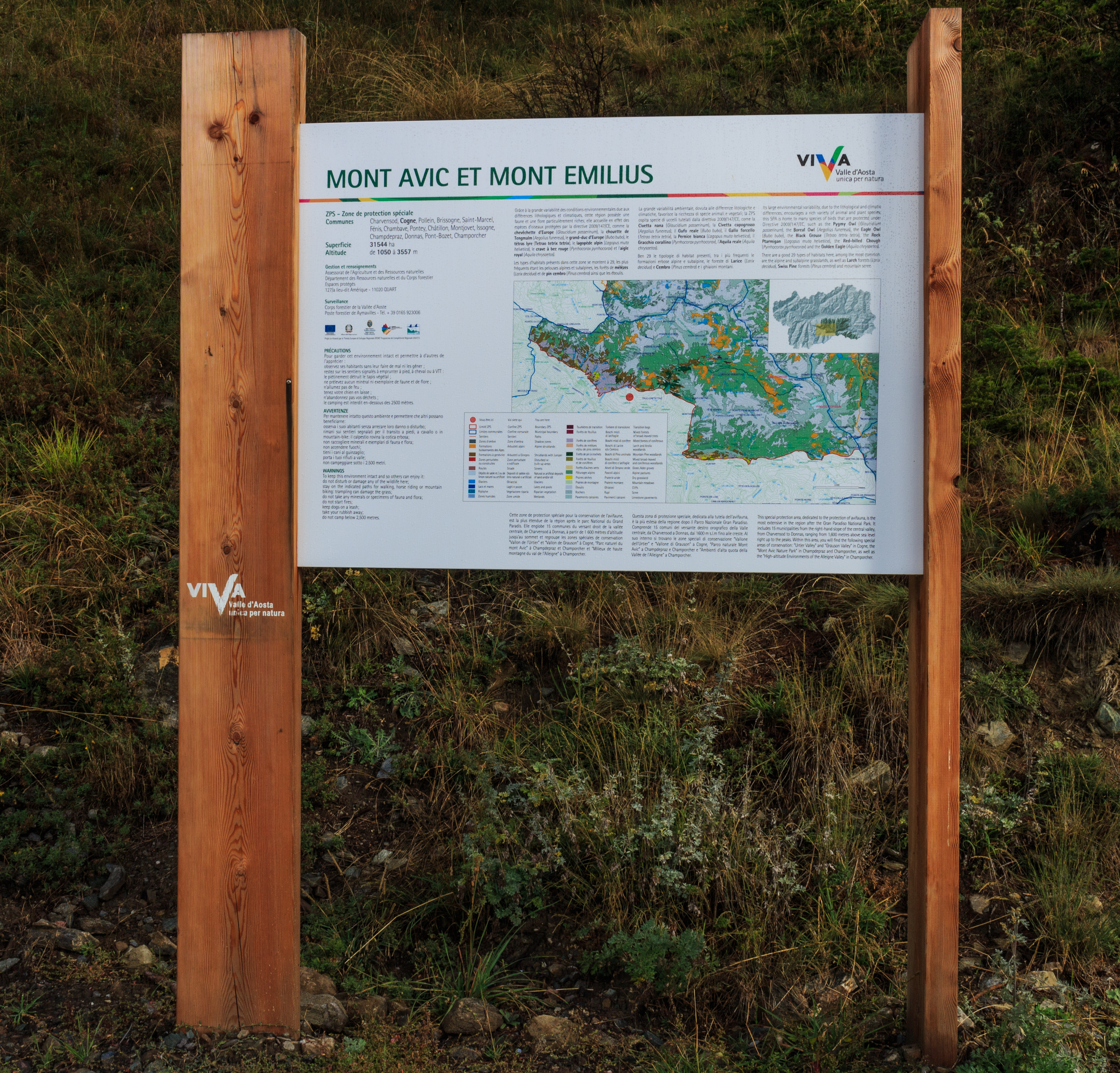 Mountain hike of Gimillan (1805m.) At Colle Tsa Sètse Cogne Valley (Italy). Information panel top Gimillan (1805m).